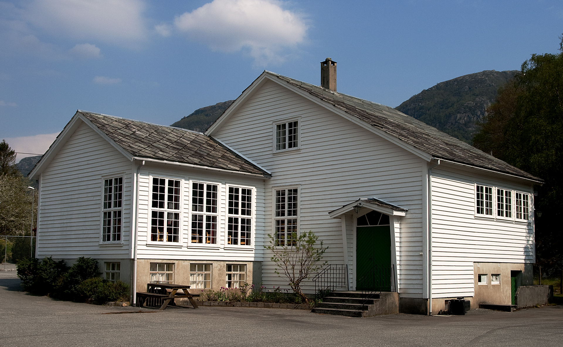 Jøsenfjord kapell